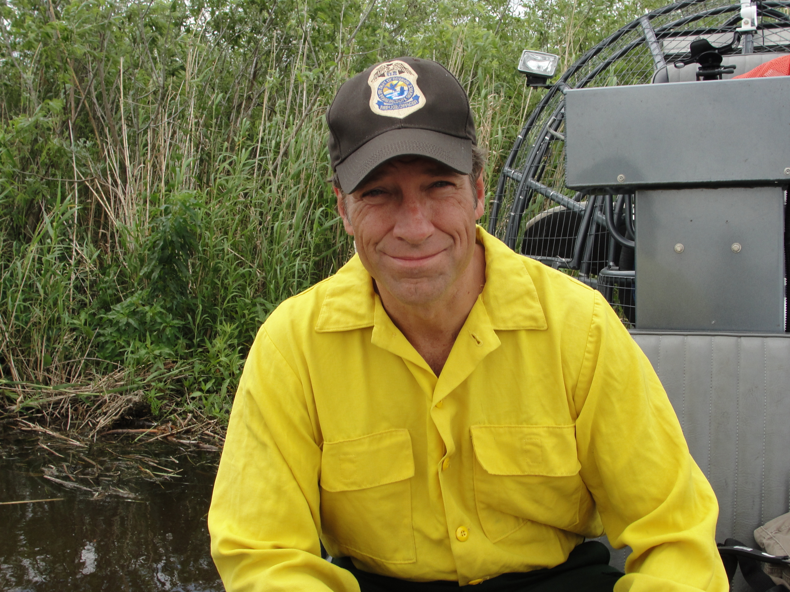 Mike Rowe, the popular host of the Discovery Channel series "Dirty Jobs with Mike Rowe," donned a U.S. Fish and Wildlife Service cap when he waded into Arthur R. Marshall National Wildlife Refuge in April. The episode of Rowe in the refuge premieres at 9 p.m. Tuesday Oct. 26. Credit: Phil Kloer/USFWS April 15, 2010